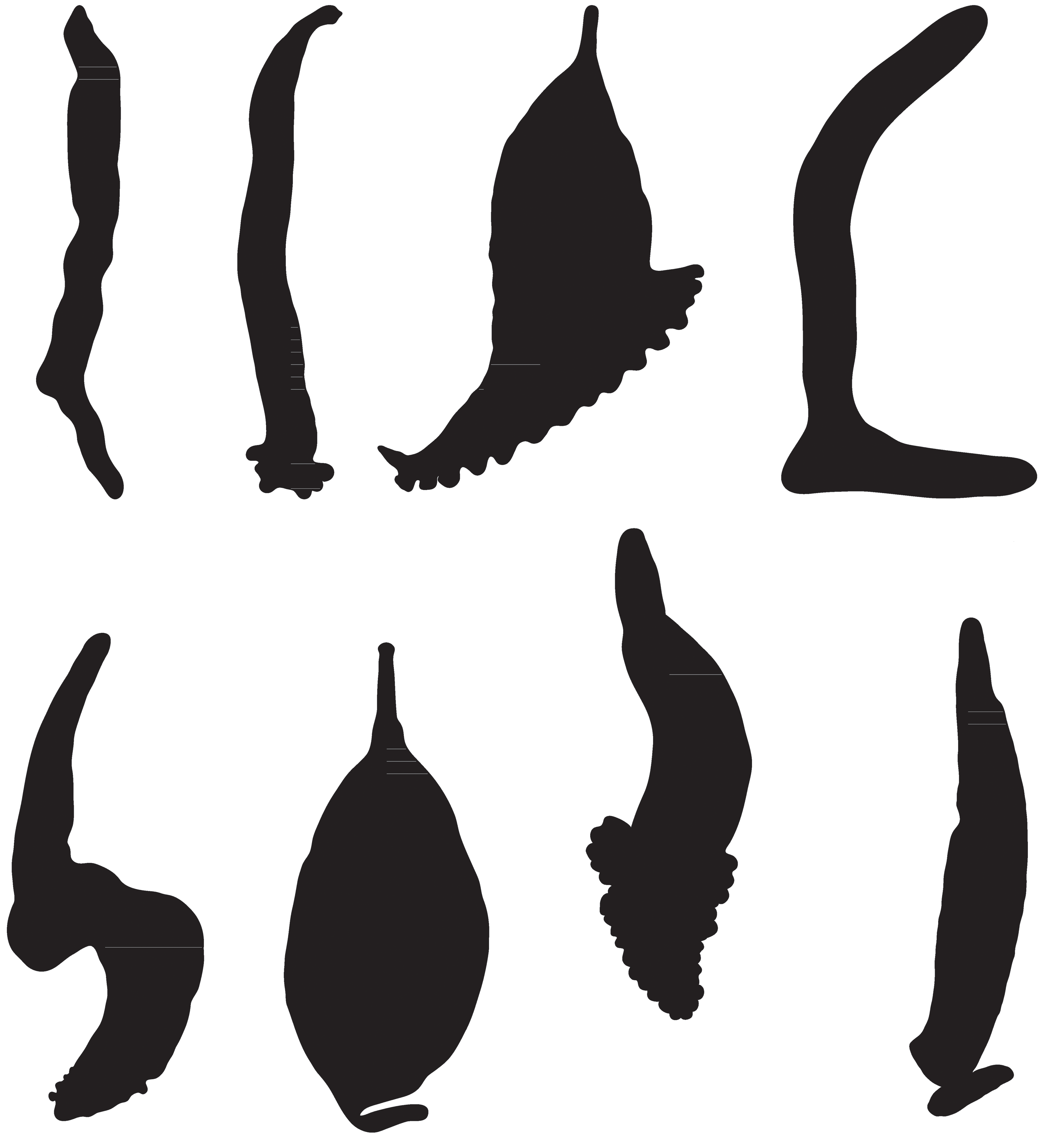 Silhouettes of bodies of parasitic flatworms Extracted from original image, clamps and lettering removed Legend in published paper: Figure 4. Body and clamp surfaces: examples of line drawings in 8 families. Body and clamp surfaces: examples of line drawings used for data extraction in each of the 8 families of the Gastrocotylinea. All species drawn to same body length. A, Gotocotylidae, Gotocotyla niphonii. B, Bychowskicotylidae, Tonkinopsis transfretanus. C, Gastrocotylidae, Allopseudaxinoides euthynni. D, Neothoracocotylidae, Pricea minimae. E, Allodiscocotylidae, Metacamopia indica. F, Pseudodiclidophoridae, Allopseudodiclidophora opelu. G, Chauhaneidae, Cotyloatlantica mediterranea. H, Protomicrocotylidae, Lethacotyle vera n. sp (no clamps). Details in Table 3. File:Journal.pone.0079155.t003 Surface of clamps and body in species of gastrocotylinean monogeneans.png